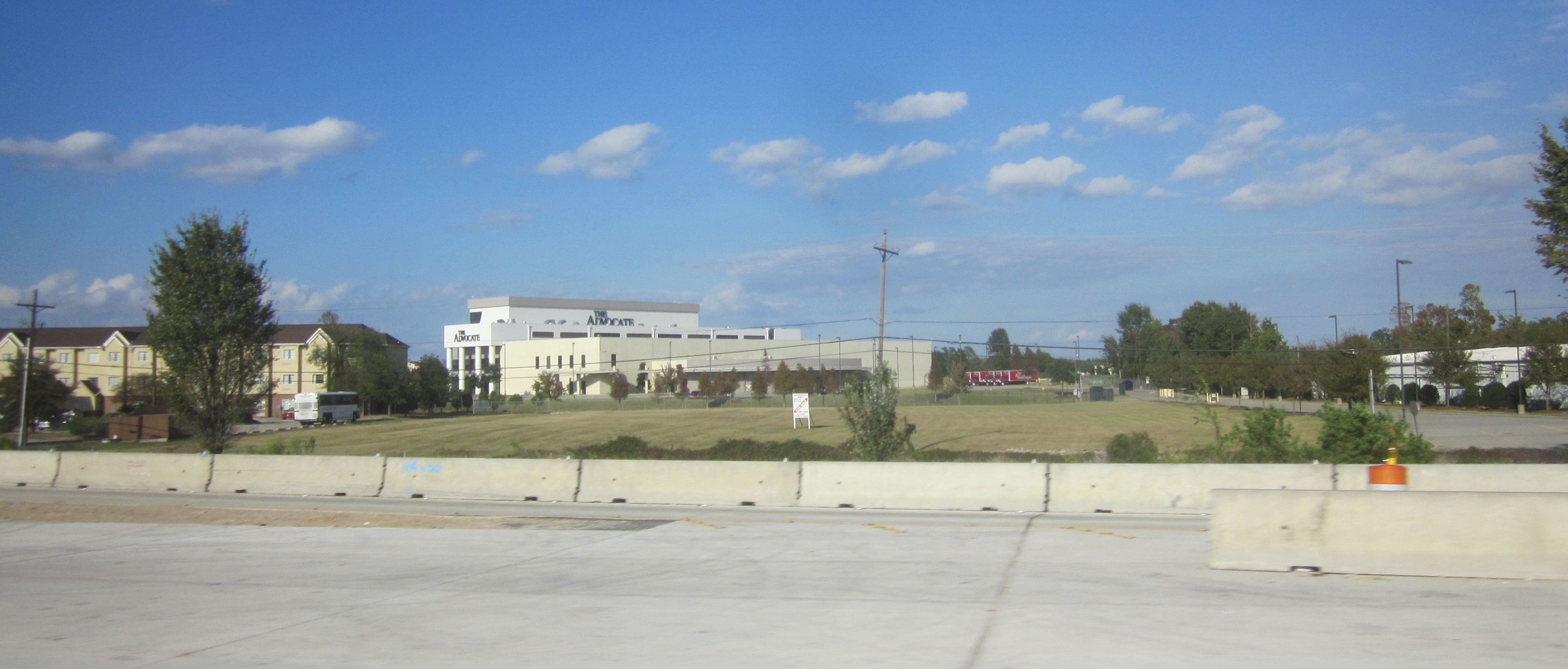 The Advocate, south-east Louisiana's leading daily paper. Offices in Baton Rouge seen from Interstate 10.